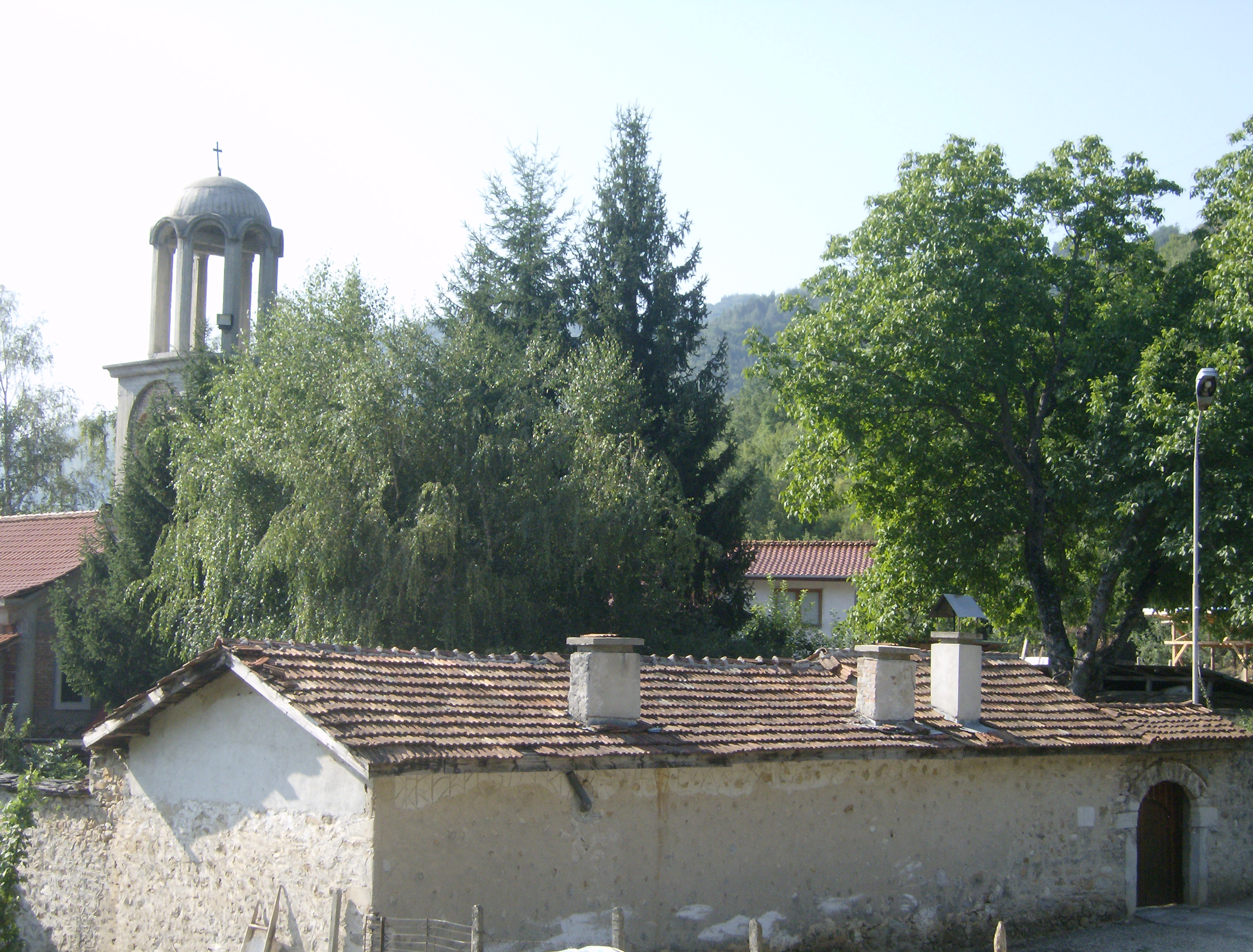 Gotse Delchev Monastery